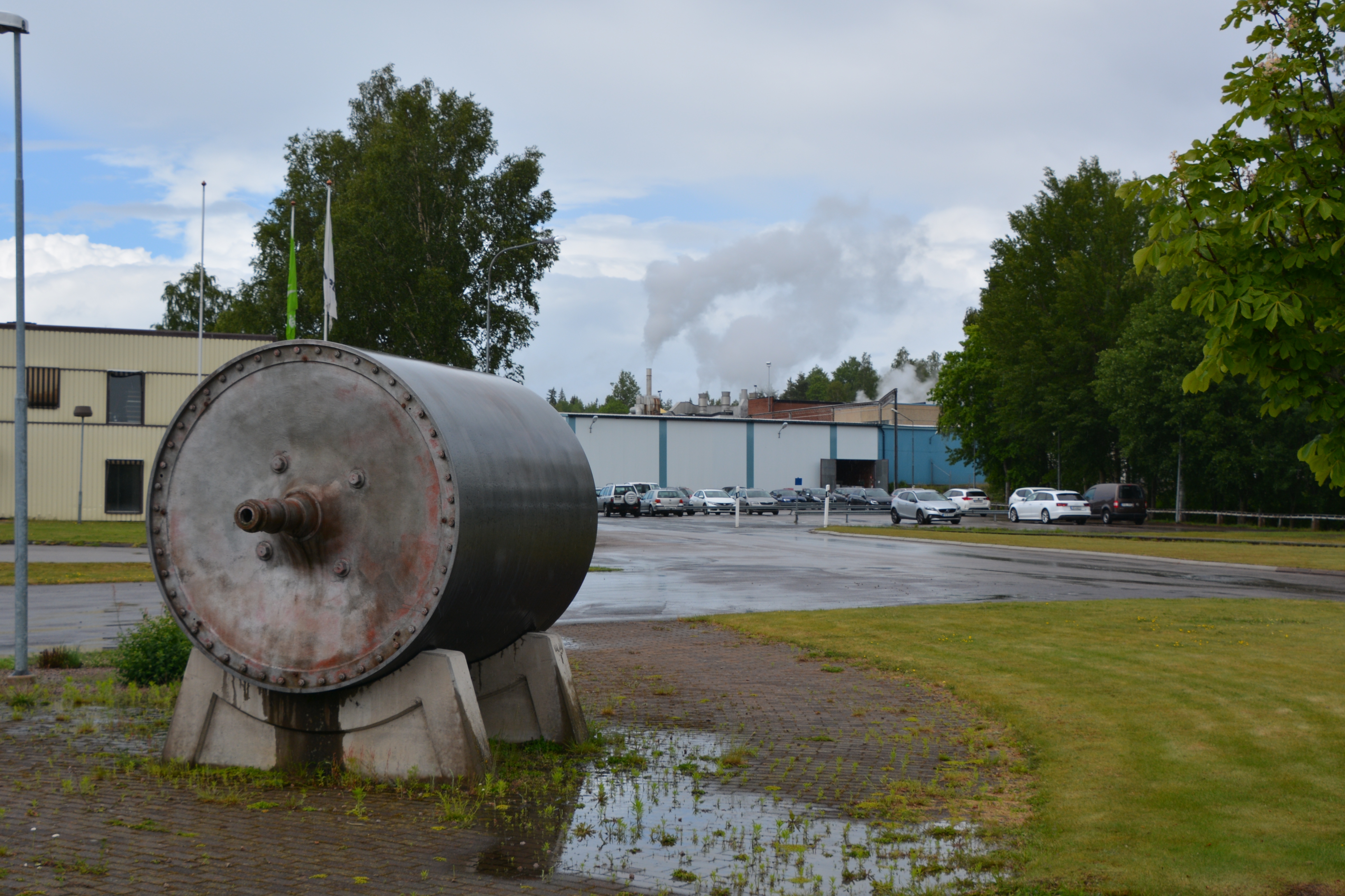 Yankeecylinder, Pauliströms pappersbruk